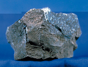 Pyrolusite